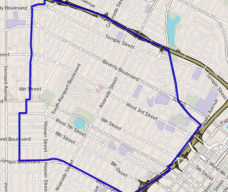 Map of Westlake, California, as delineated by the Los Angeles Times Other information Boundary map as drawn by the Los Angeles Times on a CC-by-SA background. Note at bottom right of map on the L.A. Times website noted above says "CC-by-SA" (which gives permission to use the map). There is a link there to which explains the meaning thereof. The base map is credited to The Times spells all this out at